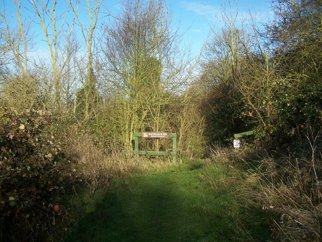 Entrance to Northward Hill Nature Reserve On footpath from Forge Lane in High Halstow.